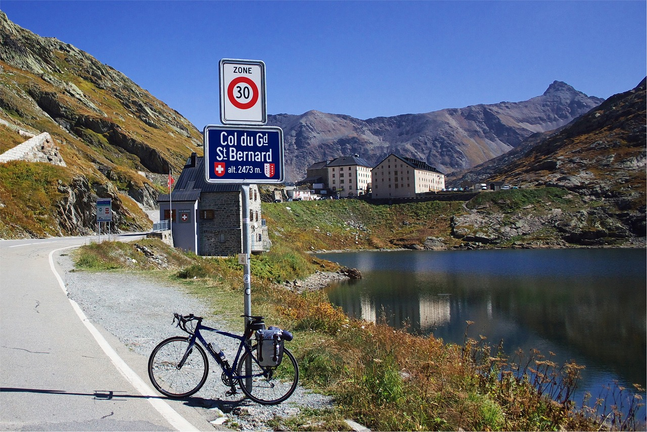 Great St Bernard Pass (Fr. Col du Grand-Saint-Bernard, It. Colle del Gran San Bernardo) is the most ancient pass through the Western Alps, with evidence of use as far back as the Bronze Age and surviving traces of a Roman road. In 1800 Napoleon's army used the path to enter Italy